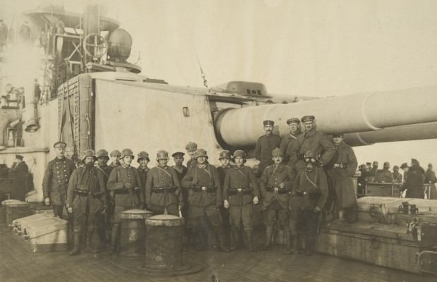 Troops of the Mecklenburgisches Jäger-Bataillon Nr. 14 on the deck of a German coastal defence ship during the 1918 Invasion of Åland.